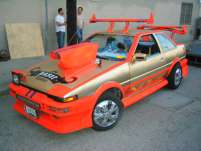 An extreme example of a "rice burner;" a Toyota AE86 dressed up as the Poser Mobile for the T-Mobile TV ads. However the originator of the pic wishes to remain anonymous.